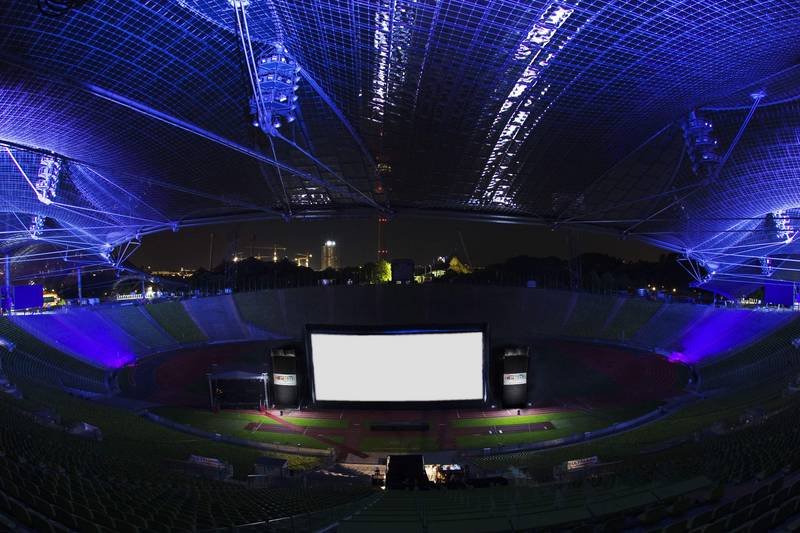 Olympiastadion Munich